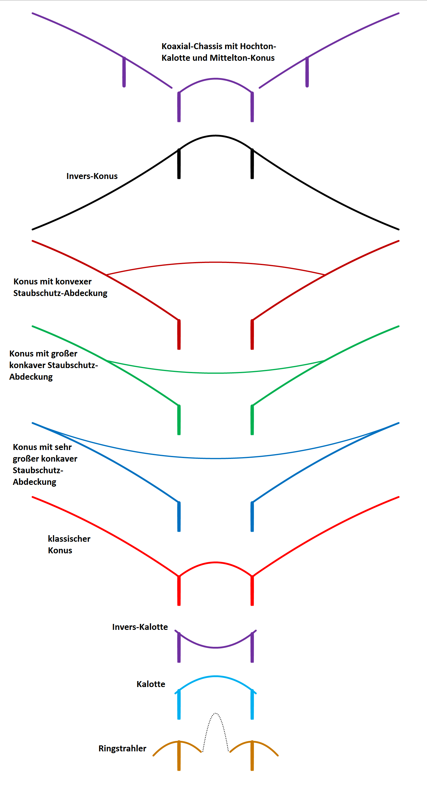 Membranformen von dynamischen Lautsprechern